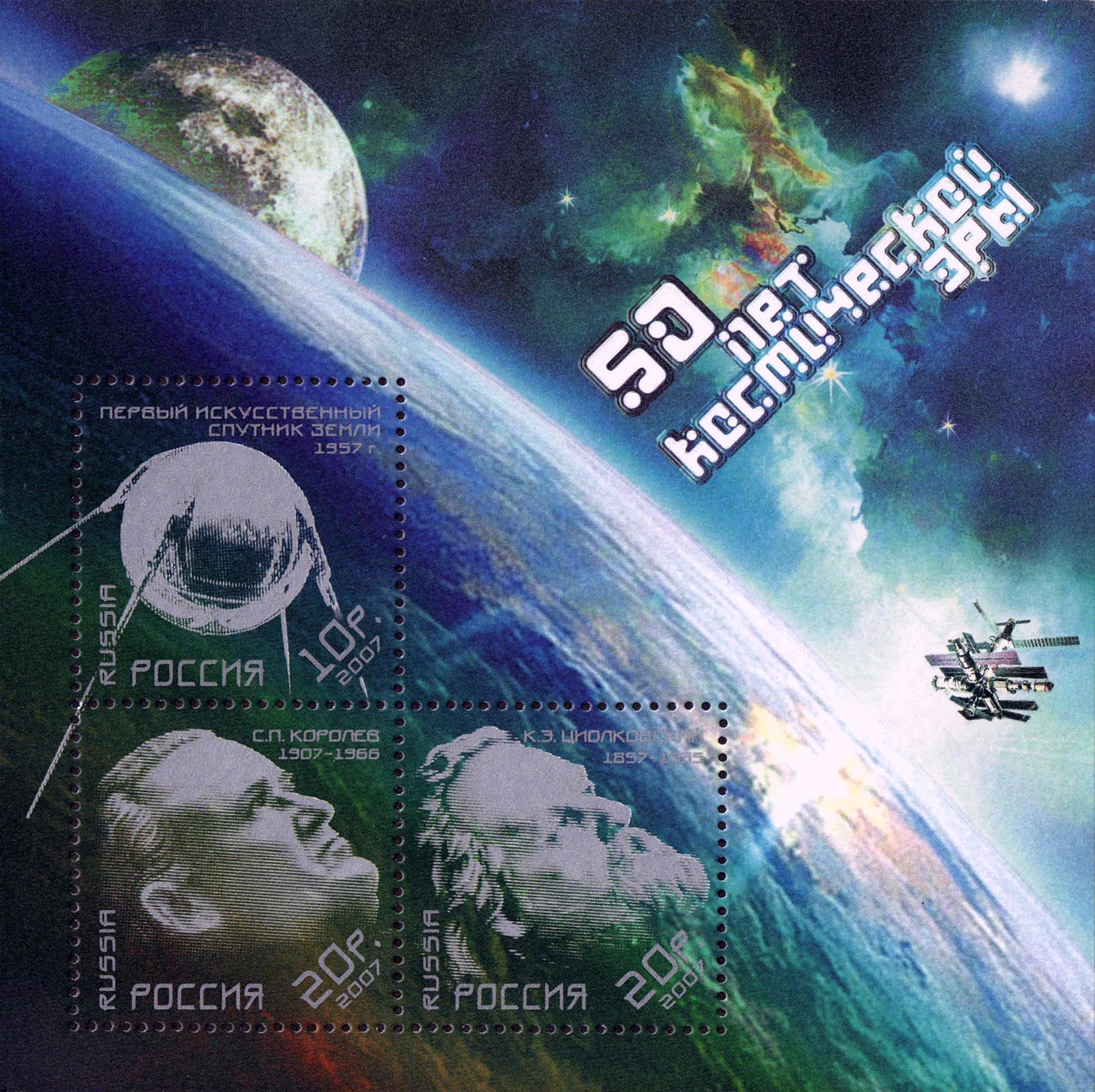 50th anniversary of the Space Era. The miniature sheet of Russia, (3 stamps), 12 April 2007, PTC Marka Catalogue No 1173–1175, Michel No 1405–1407 (Block100). Offset printing, varnish coating, metallic paint. Perforation: frame 12. Size of the miniature sheet: 110×110 mm. Size of a single stamp: 32.5×32.5 mm. Print run: 125,000 miniature sheets. No 1173, 10 rubles. The first artificial Earth satellite Sputnik 1 (1957). No 1174, 20 rubles. Sergey Korolev (1906–1966), a Soviet scientist, a rocket engineer and a spacecraft designer, the leading figure of the Soviet space program. No 1175, 20 rubles. Konstantin Tsiolkovsky (1857–1935), an Imperial Russian and Soviet rocket scientist and a pioneer of the astronautic theory, one of the founding fathers of rocketry and astronautics. The margins of the miniature sheet: the view of Earth and the Moon from the terrestrial space, the International Space Station in near-earth orbit.